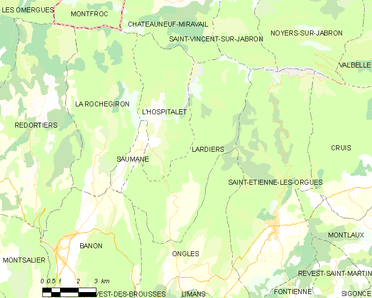 Map commune FR insee code 04101.png Légende